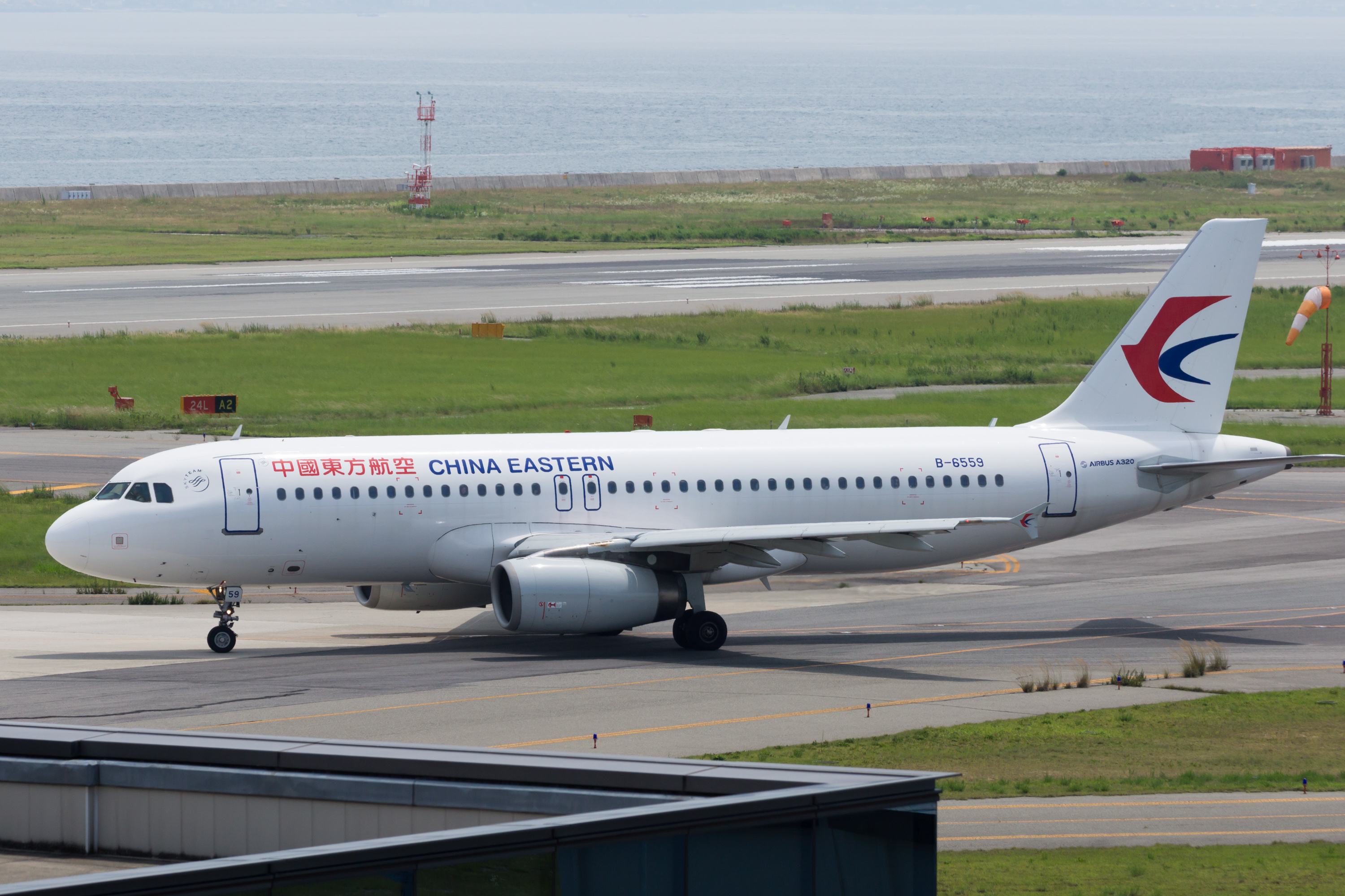 China Eastern Airlines / 中国东方航空 / 中国東方航空 Airbus A320-232 B-6559 MU226, Departed to Shanghaii Osaka Kansai Int'l Airport